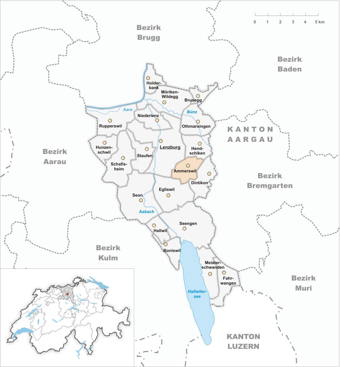 Municipality Ammerswil